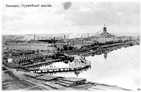 Gun factory in Izhevsk, 1916